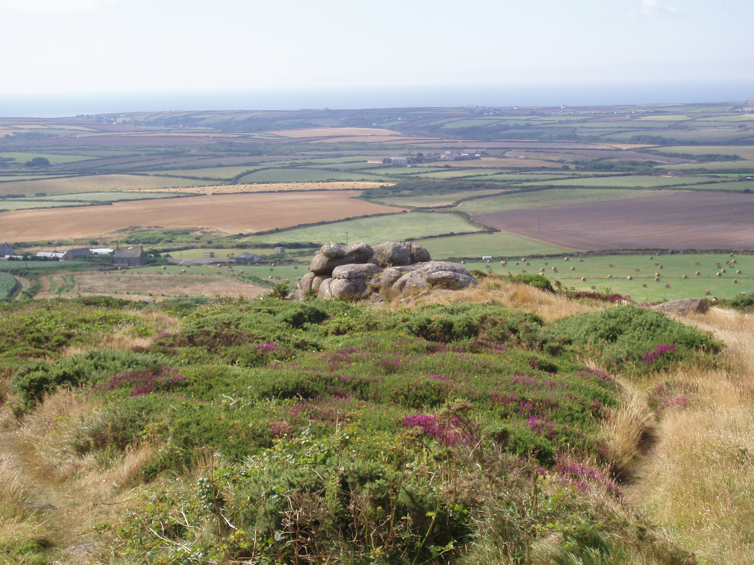 Photo taken and uploaded by Mammal4 Summary Photo taken and uploaded by Mammal4